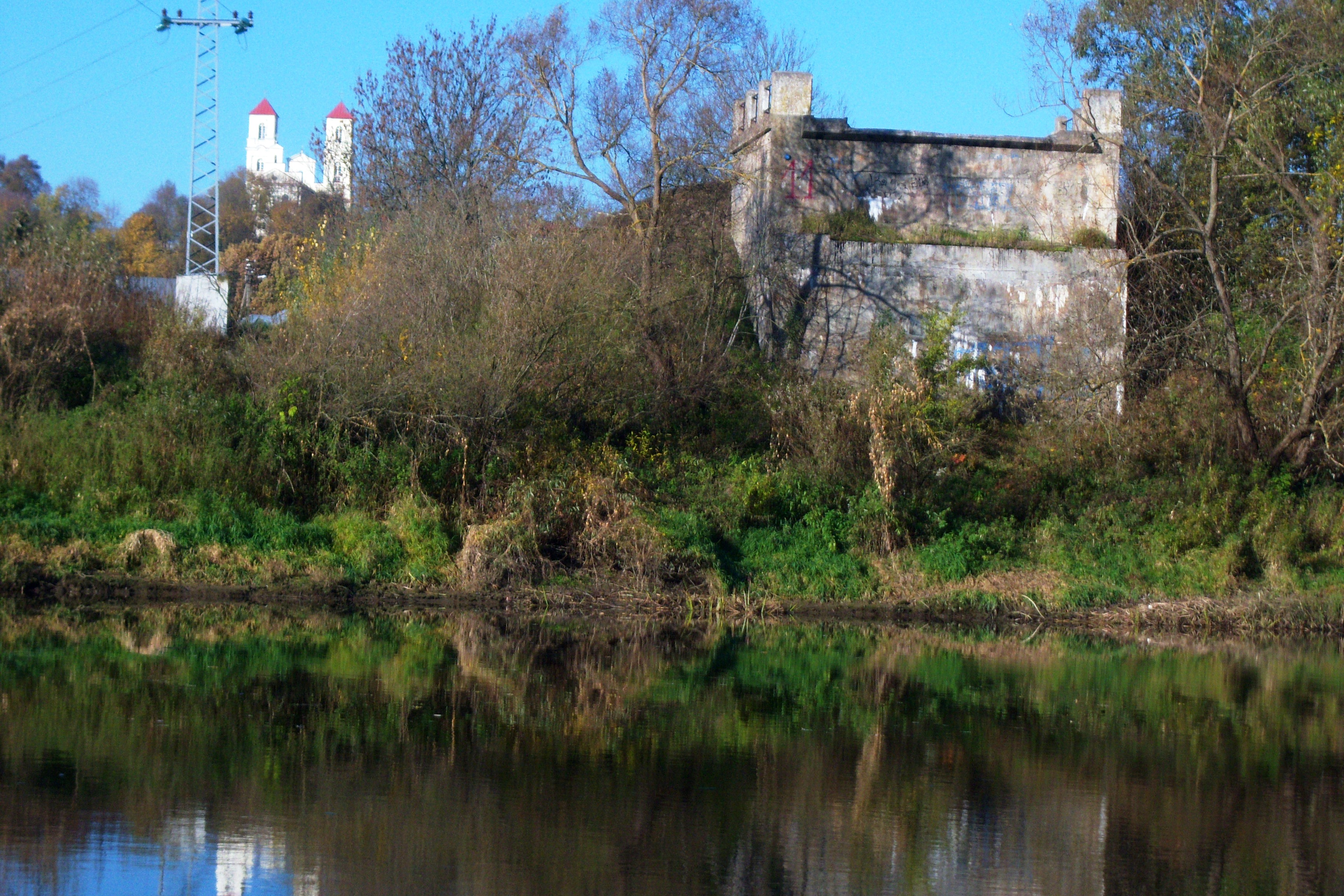 Ruins of the old Raudondvaris Bridge over Nevėžis River (right bank), Kaunas, Lithuania